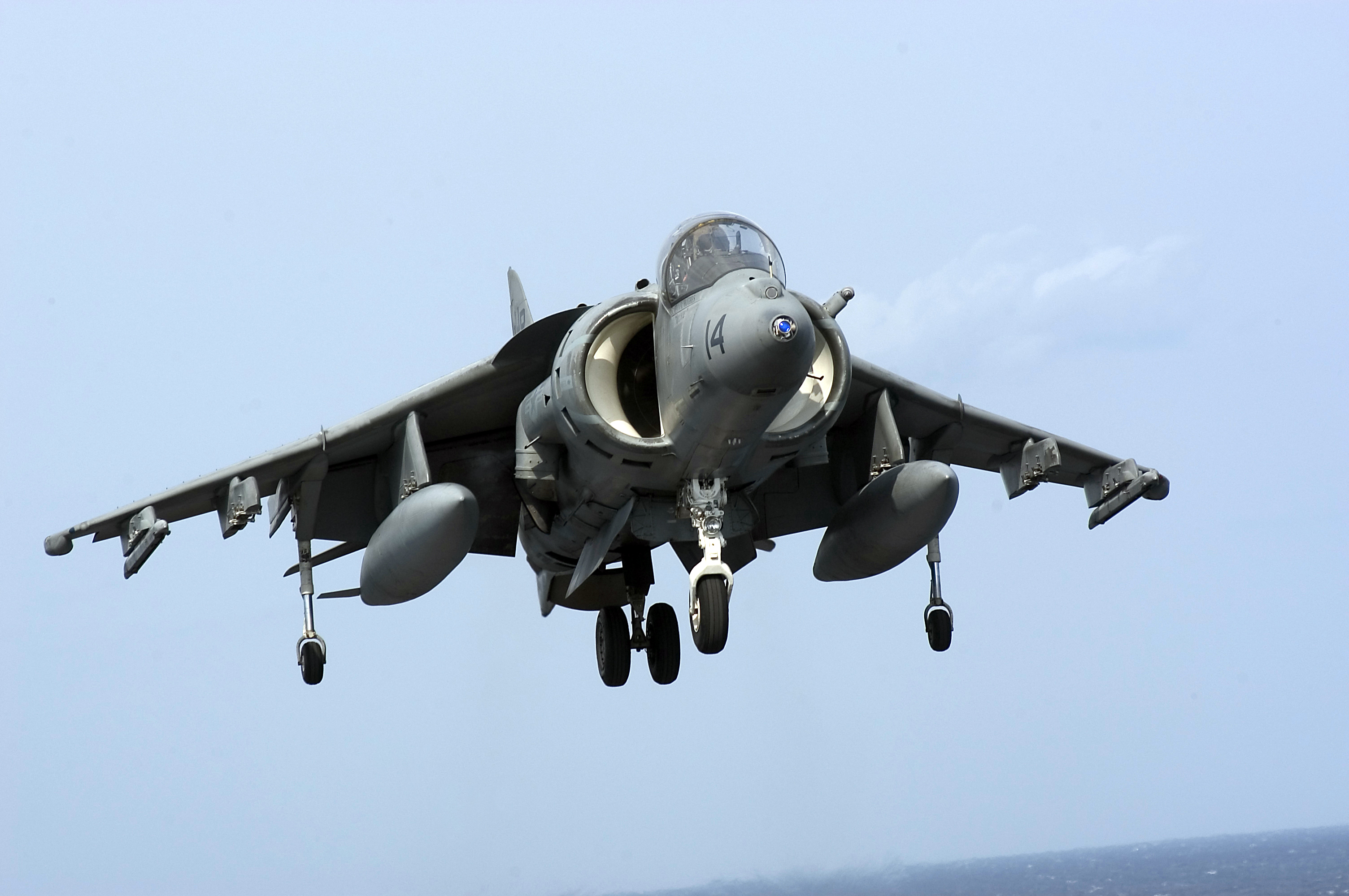 Atlantic Ocean (Feb. 15, 2005) - An AV-8B Harrier II+, assigned to the “Bulldogs” of Marine Attack Squadron Two Two Three (VMA-223), prepares for landing over the flight deck aboard the amphibious assault ship USS Nassau (LHA 4). The AV-8B is a high performance, single-engine, single-seat, Vertical/Short Take-off and Landing (V/STOL) attack aircraft. The AV-8B Harrier II+ is capable of night and adverse weather operations due to the addition of the AN/APG-65 multi-mode radar. The fusion of night and radar capabilities allows the Harrier to be responsive to the Marine Air-Ground Task Force's needs for expeditionary, night and adverse weather, offensive air support. Nassau's Air Department practiced handling the Harriers for the phase three landing qualification during a two-week underway period. U.S. Navy photo by Photographer’s Mate 3rd Class Andrew King (RELEASED)